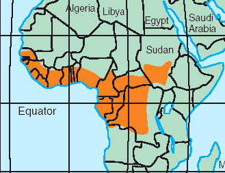 Diagram of Parachanna distribution from USGS en: Circular 1251